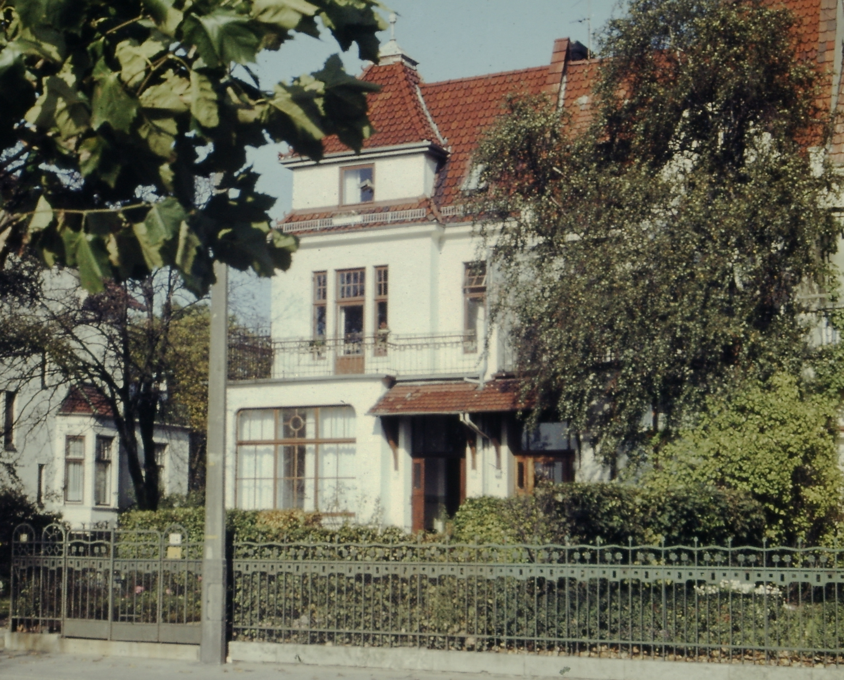 Bremen, Osterdeich house number 113, 114 in 1965